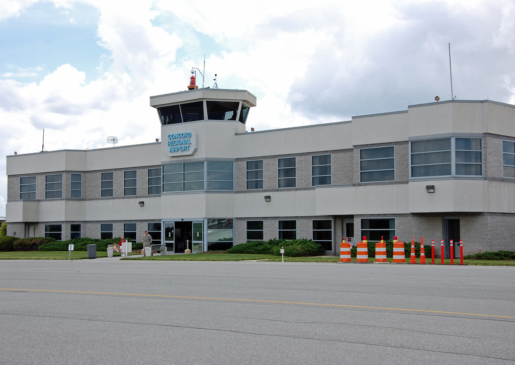 General aviation terminal at Concord Regional Airport.